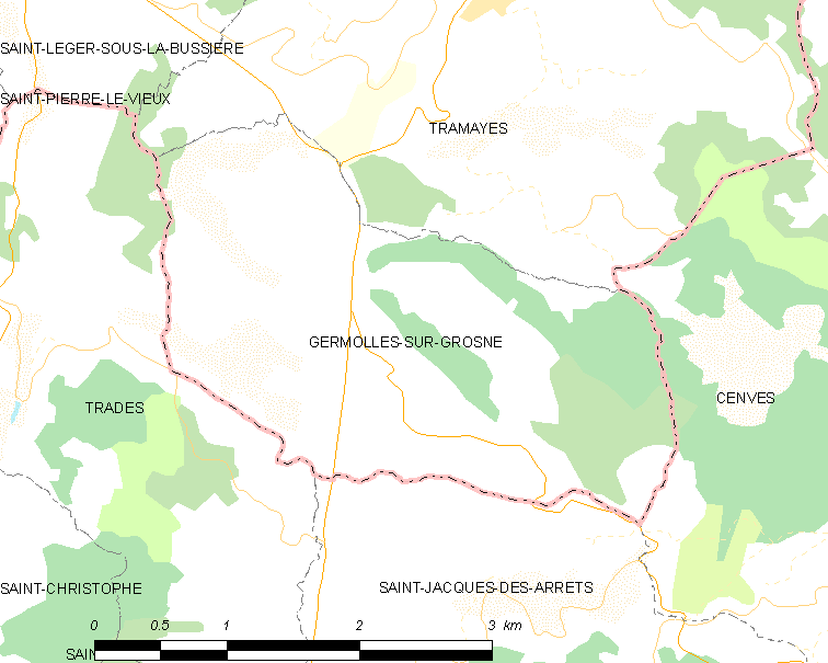 Map of French municipality